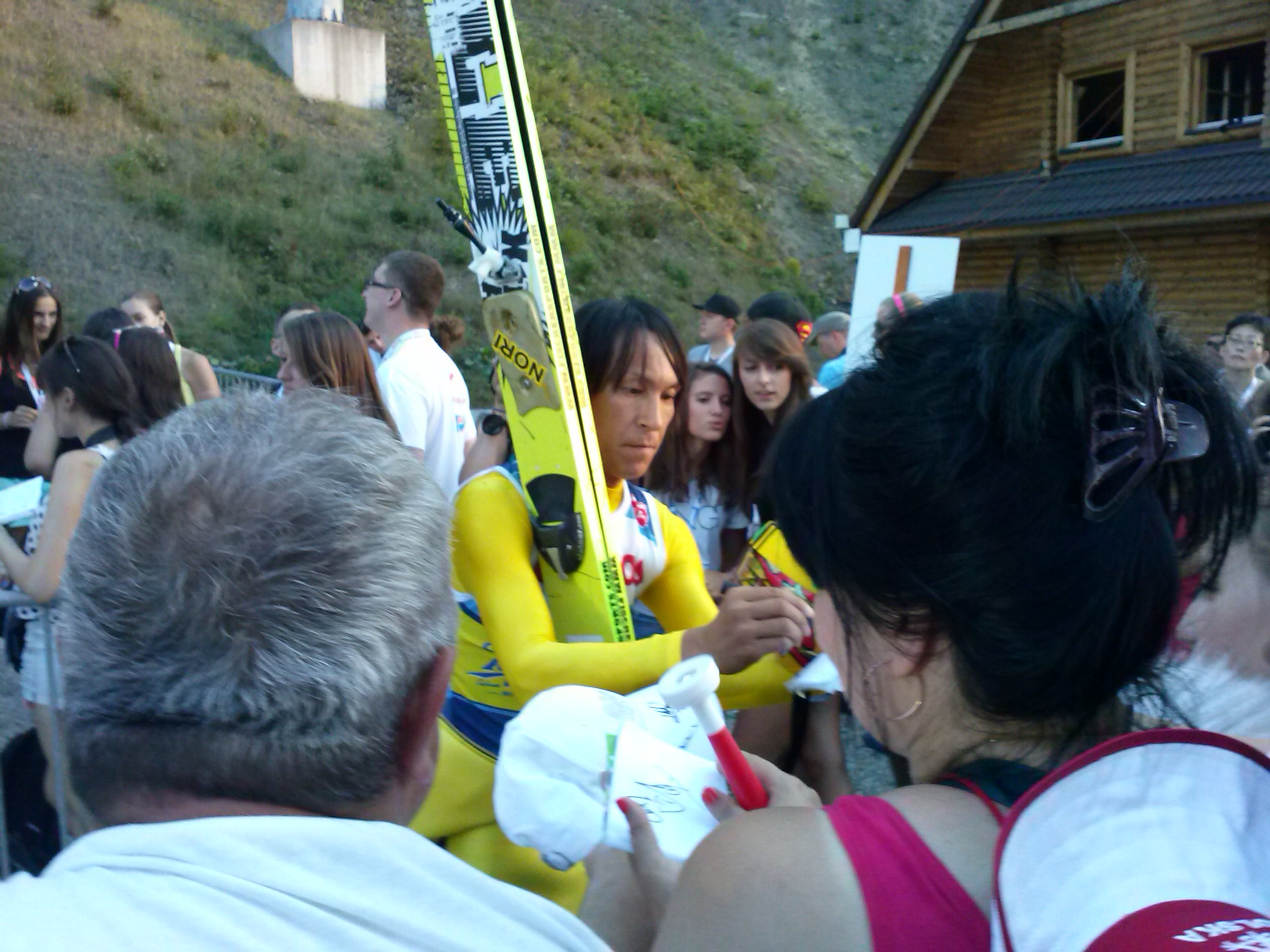 Noriaki Kasai - japanese ski jumper during FIS Summer Grand Prix 2013 in Wisła.